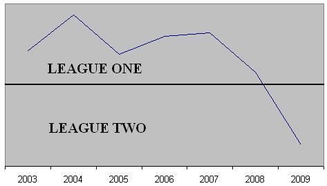 Graph of Port Vale F.C. league positions under Bill Bratt's leadership